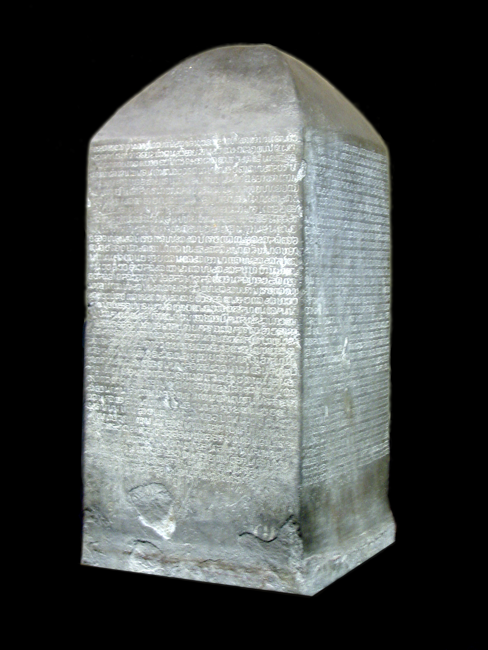 This stele bears a written date of 1292. It displays a biography of Ramkamhaeng that is traditionally, but controversially, attributed to the King himself. It is one of the very few sources of information that we have about this semilegendary monarch.